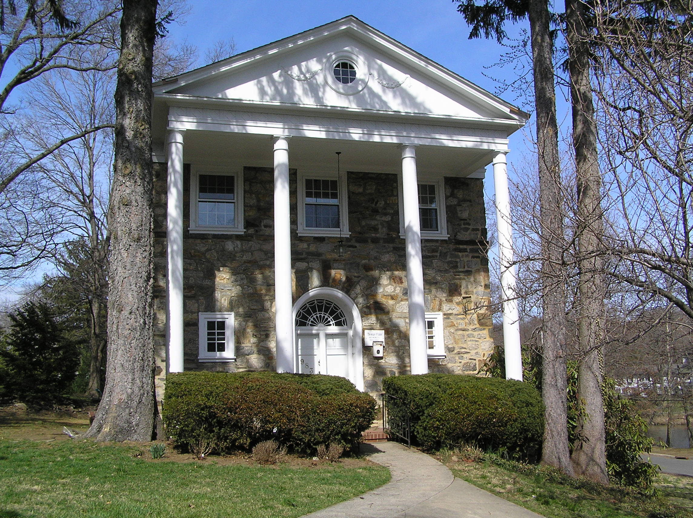 I took this photograph of the Paine Historical Society at 983 North Avenue in New Rochelle, New York, on March 30, 2007. (Note: image is not the Thomas Paine Cottage, regardless of filename and upload summaries.) GNU Free Documentation License